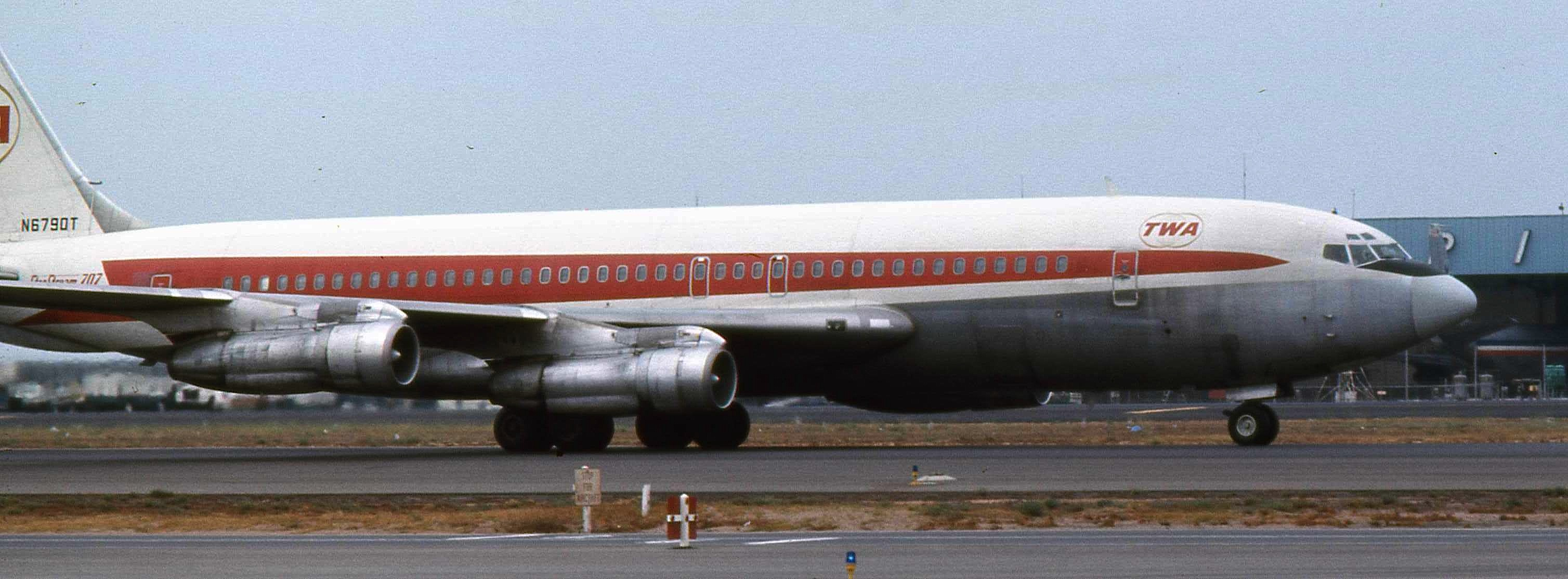 Trans World Airlines Boeing 707 131B, N6790T, c/n 19436, delivered on August, 1st, 1967 taken at Los Angeles in 1974.